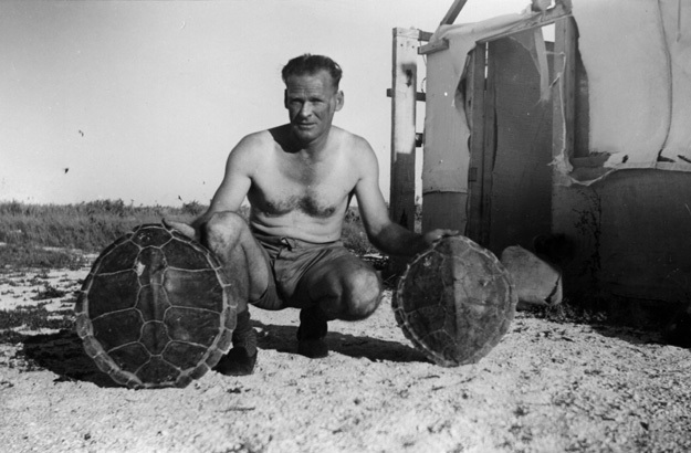 This is a photograph of a man displaying two turtle shells, standing outside a shack somewhere in the Houtman Abrolhos.